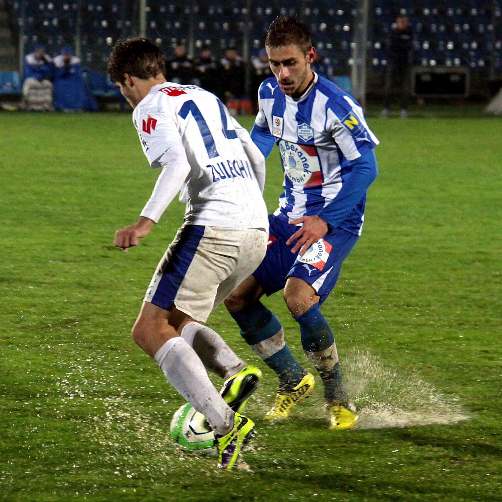 Austrian Football Bundesliga: SC Wiener Neustadt vs. SV Grödig (0:2) at 2013-11-23 in the Stadion Wiener Neustadt. – The photo shows Remo Mally (SC Wiener Neustadt, blue shirt) and Philipp Zulechner (SV Grödig, white shirt).